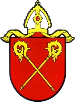 Coat of arms of Mnichovo Hradiště (city in Czechia) Česky: Znak Mnichova Hradiště